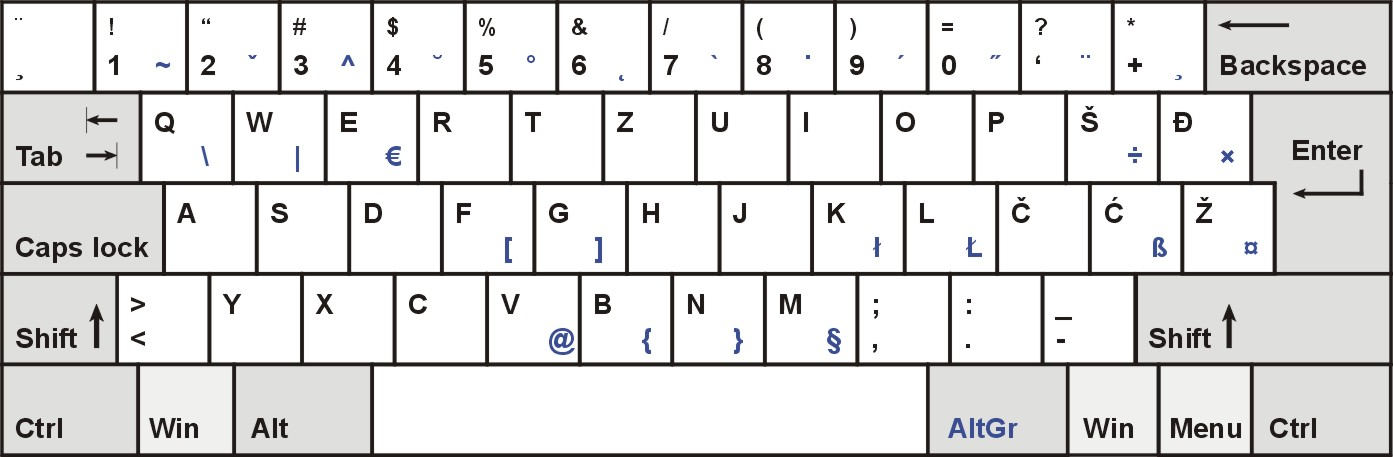 Croatian keyboard layout